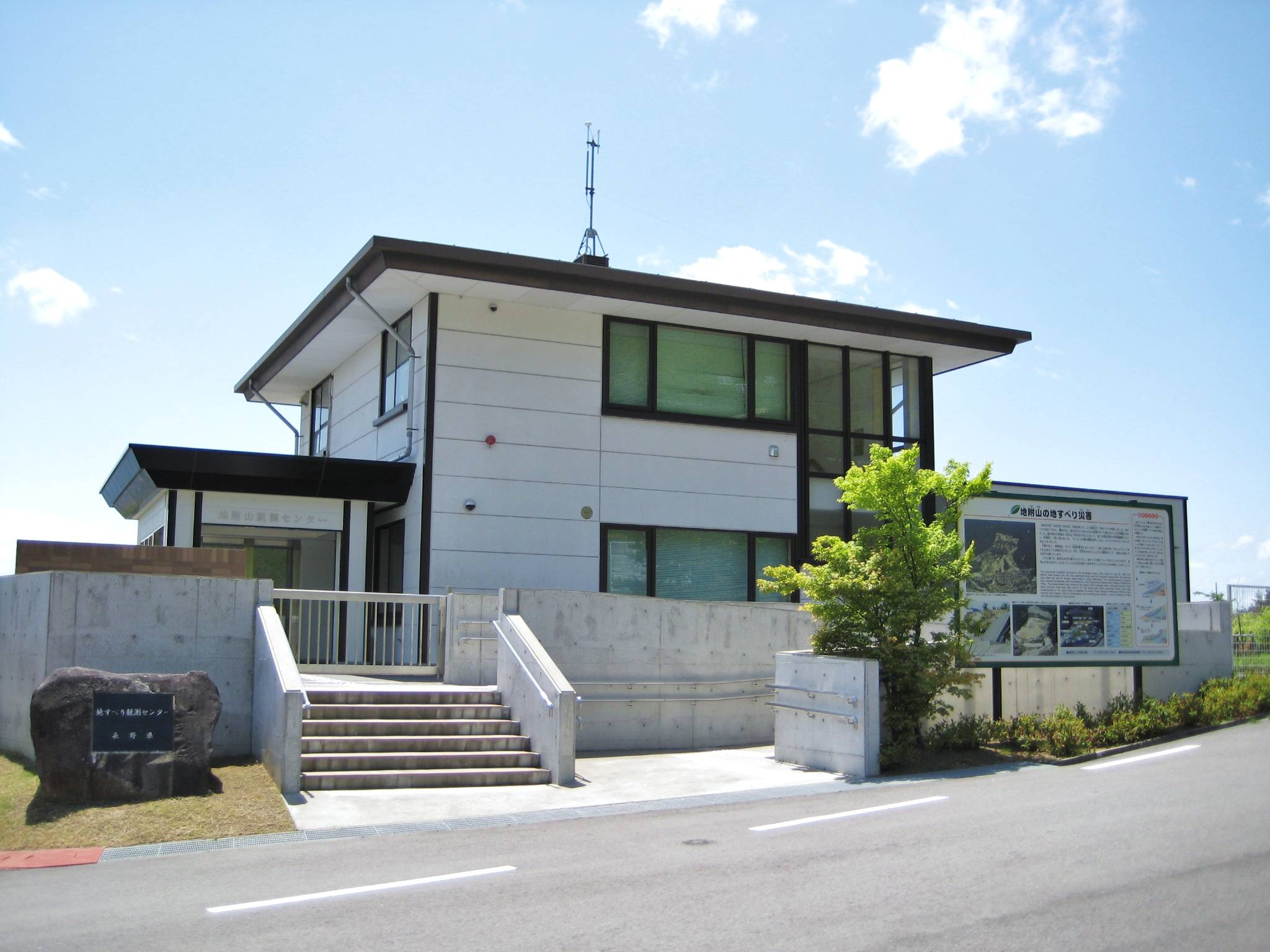 Jizukiyama landslide surveillance center.